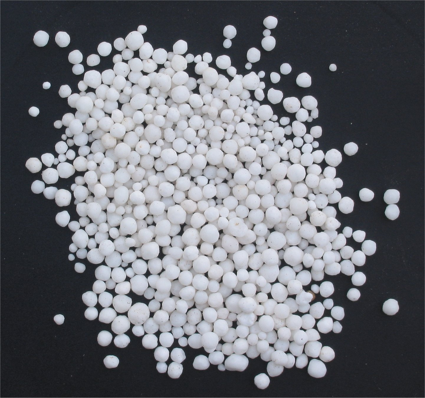 27% N NH4NO3 + 4% MgO. Picture taken by myself. (Kalkammonsalpeter)